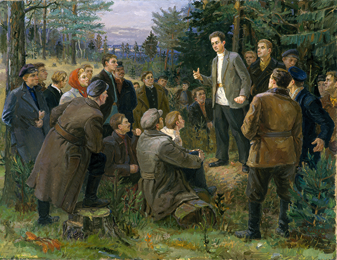 Painting of Moshe Rosenthalis.